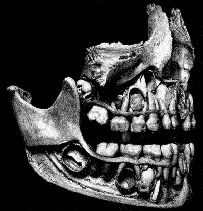 The complete temporary dentition and the first permanent molar. Note the relation of the bicuspids to the temporary molars. (In the seventh year.) (Noyes.)